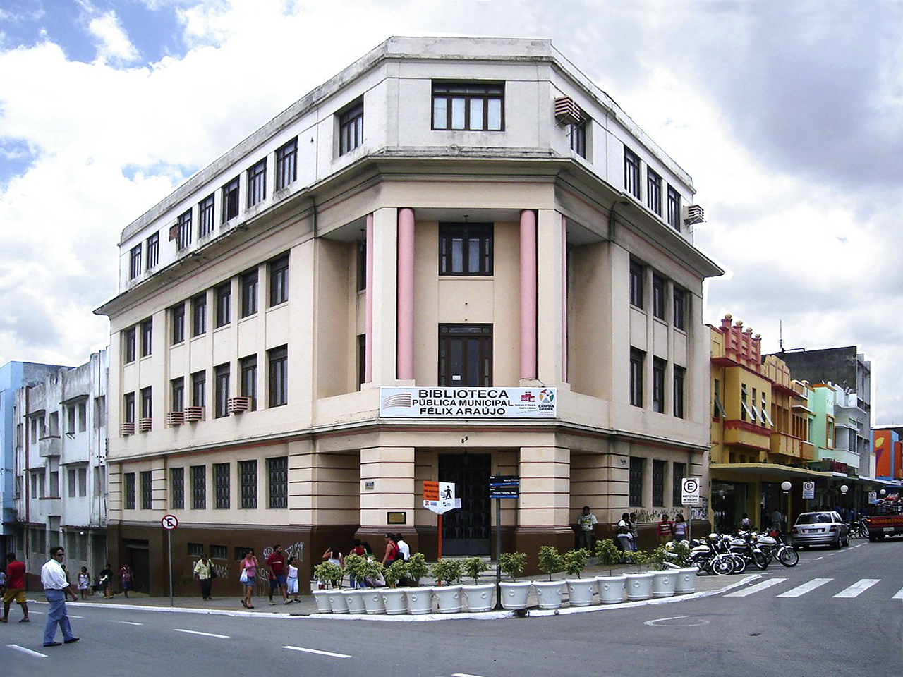 Pic of the Biblioteca Municipal Felix Araujo, in Campina Grande city, Brasil.